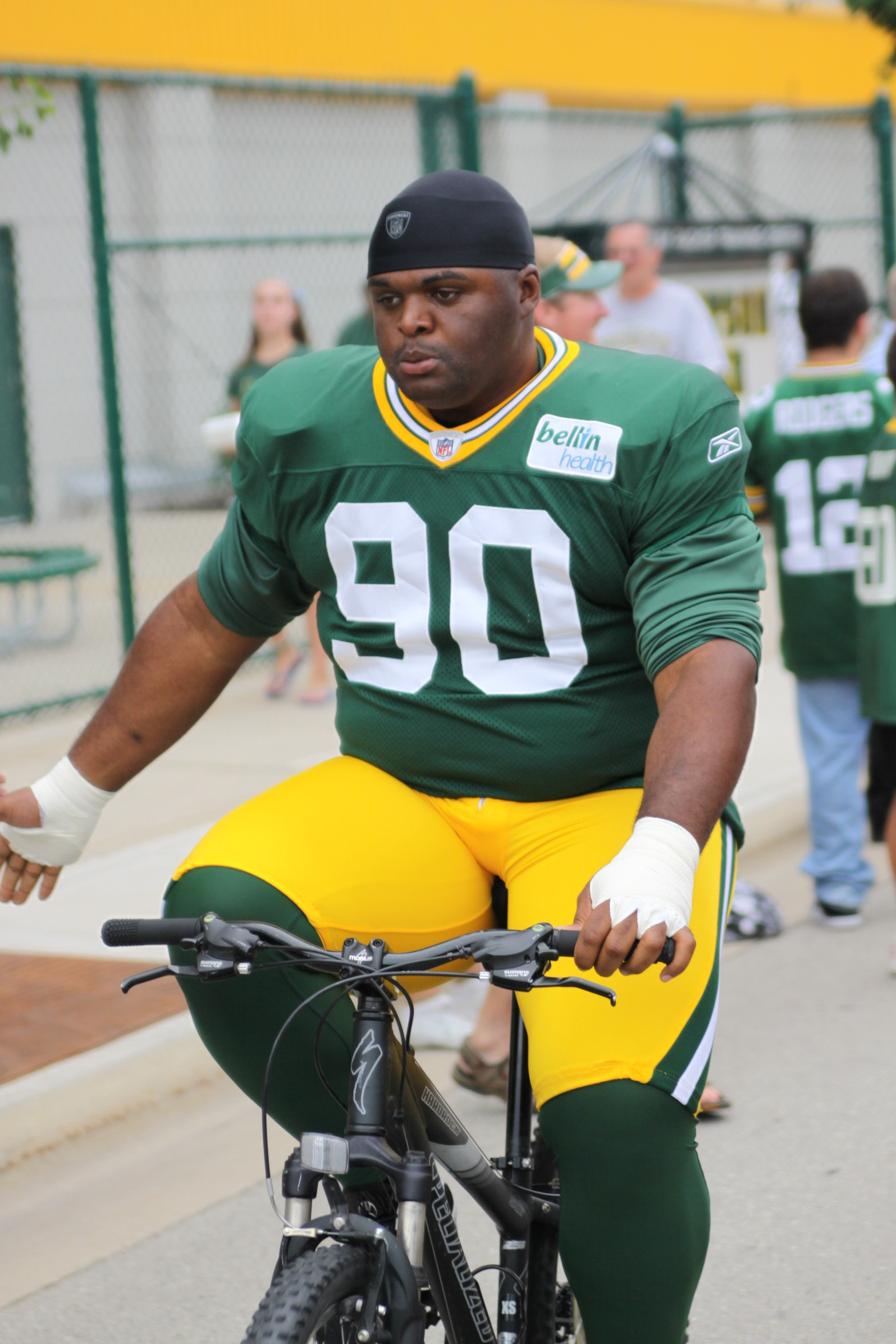 Green Bay Packers Nose tackle B.J. Raji rides a fan's bicycle at pre-season training camp, August 1, 2011, Green Bay, WI